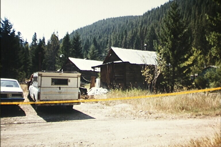 Home of Russell Eugene Weston